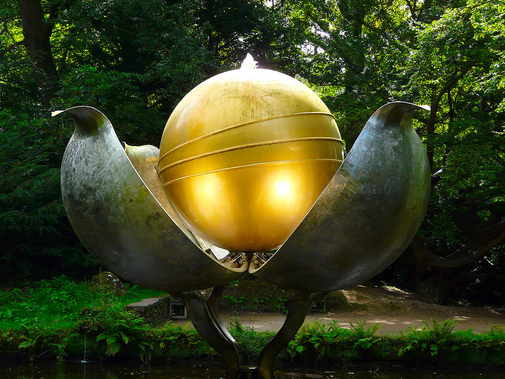 The Revelation sculpture at Chatsworth House designed by Angela Conner